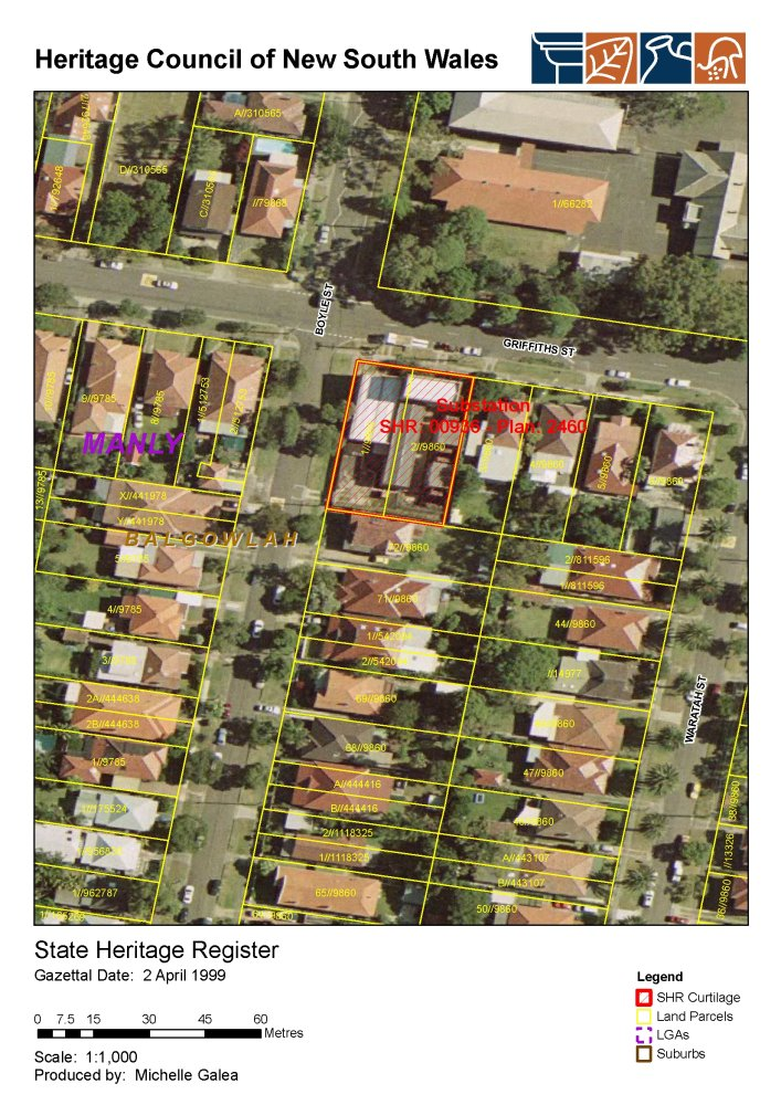 Balgowlah Substation: SHR Plan 2460